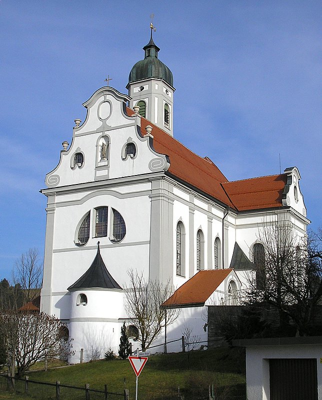 Bertoldshofen, view of St Michael Parish Church from south-west.